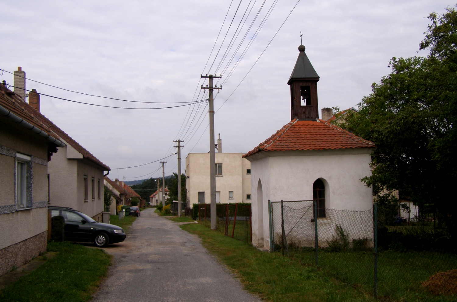 Budišov-Mihoukovice. Chapel